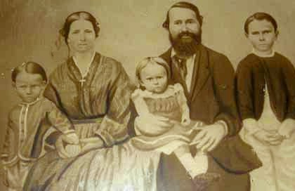 William Cornelius Shipman (1824-1861) was a missionary who set out to Micronesia, but stayed in Hawaii instead to raise a family. His wife was Jane Stobie; son William Herbert (1854-1943) was an important businessman on the Island of Hawaii; daughter Margaret Clarissa (1859-1891) married politician Lorrin Thurston who organized the overthrow of the Hawaiian Kingdom; and son Oliver Taylor (1857-1942).